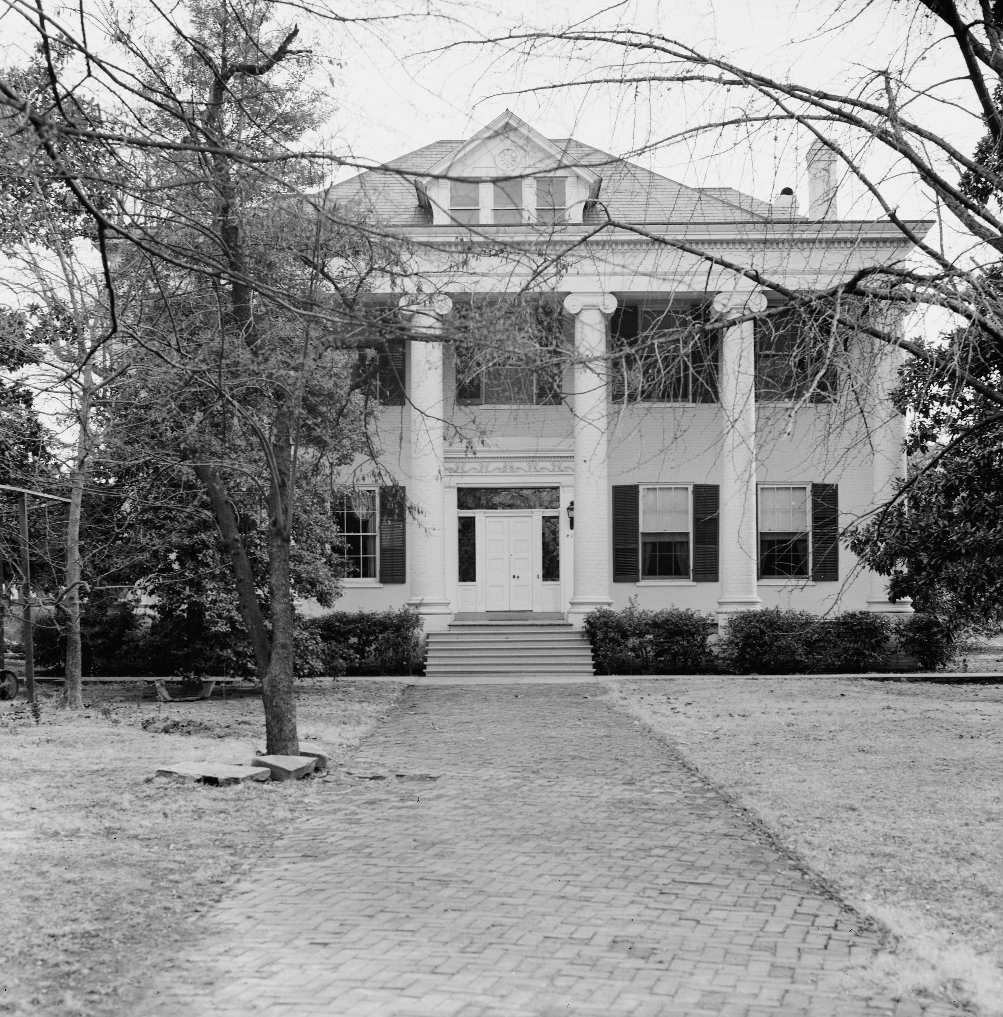 Front of the Pike-Fletcher-Terry House, located at 411 E. Seventh Street in Little Rock, Arkansas, United States. Built in 1840, it is listed on the National Register of Historic Places.